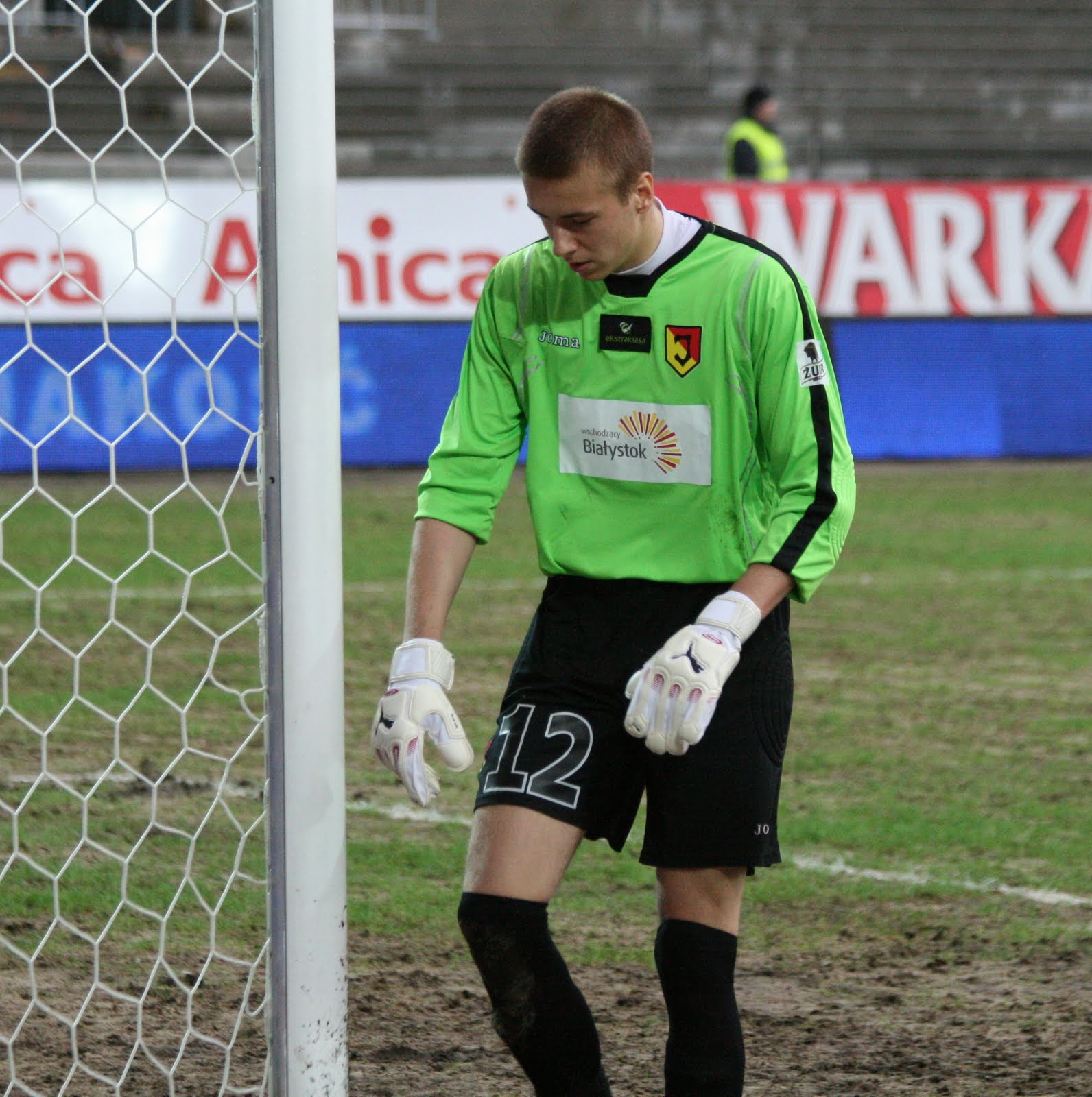 Grzegorz Sandomierski (Jagiellonia Białystok), Polish football player.